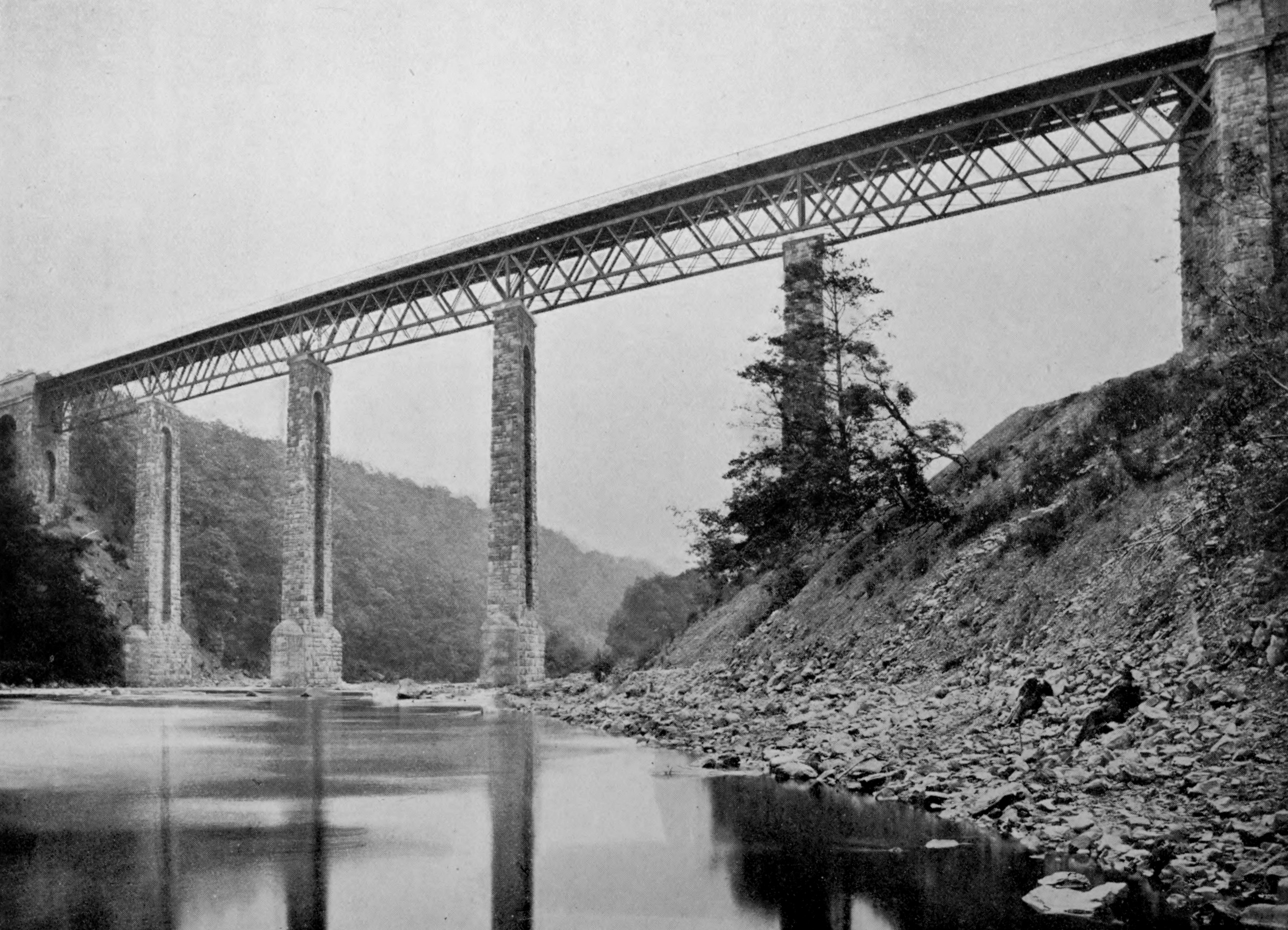 A photograph of the Tees railway Viaduct on the South Durham and Lancashire Union Railway, taken in about 1858.